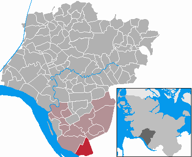 This map shows the area of the municipality Neuendorf b. Elmshorn in the Kreis (district) Steinburg, Schleswig-Holstein, Germany.